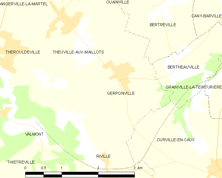 Map of French municipality Gerponville